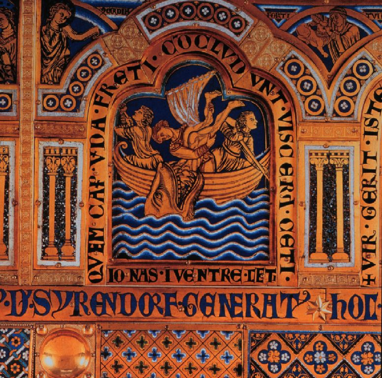 Detail of the Verduner altarpiece in Klosterneuburg, Austria by Nicholas of Verdun. Jonah in the whale. sub legem. champlevé enamel.